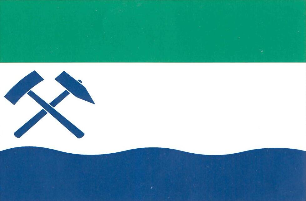 Municipal flag of Kamenná village, Jihlava District, Czech Republic.